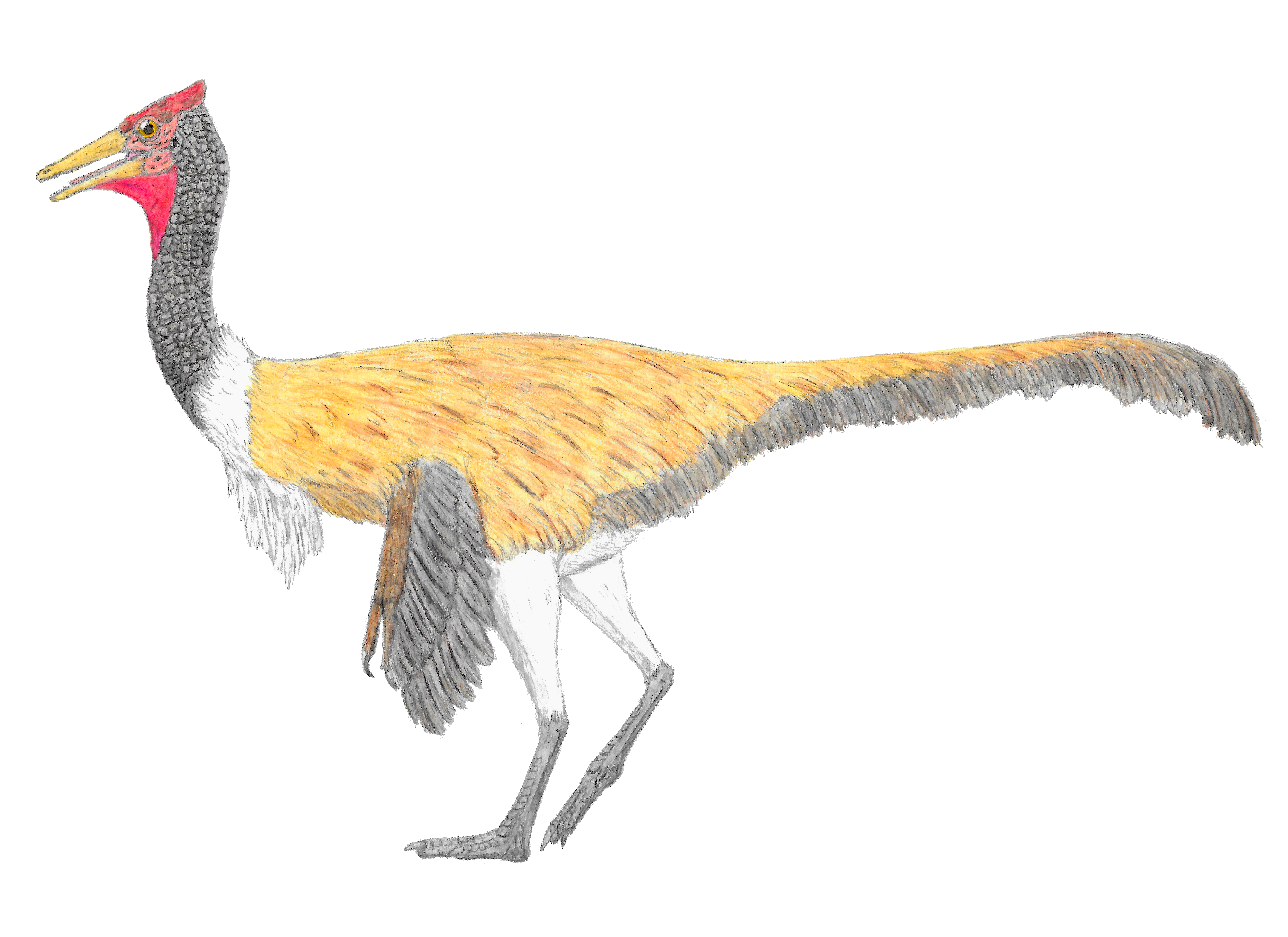 Life restoration of Pelecanimimus polydon, an ornithomimosaur that lived 130 mya in Spain